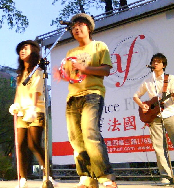 Alliance française in Taiwan concert